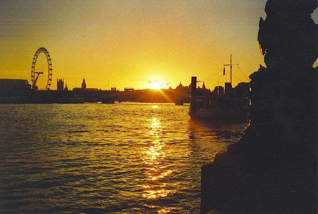 Waterloo Sunset. The Thames from the embankment by Temple Gardens, looking upstream to Waterloo Bridge. The river is tidal and has much barge and tourist traffic. The London Eye and Houses of Parliament are on the skyline.